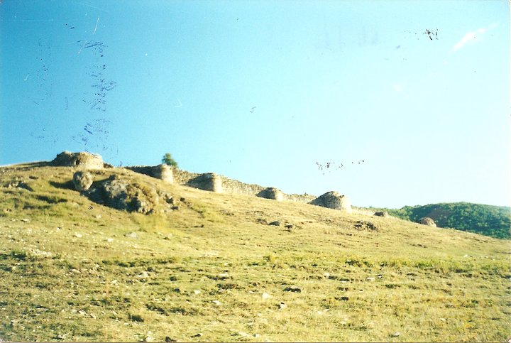 Castle_of_Atsriskhevi.